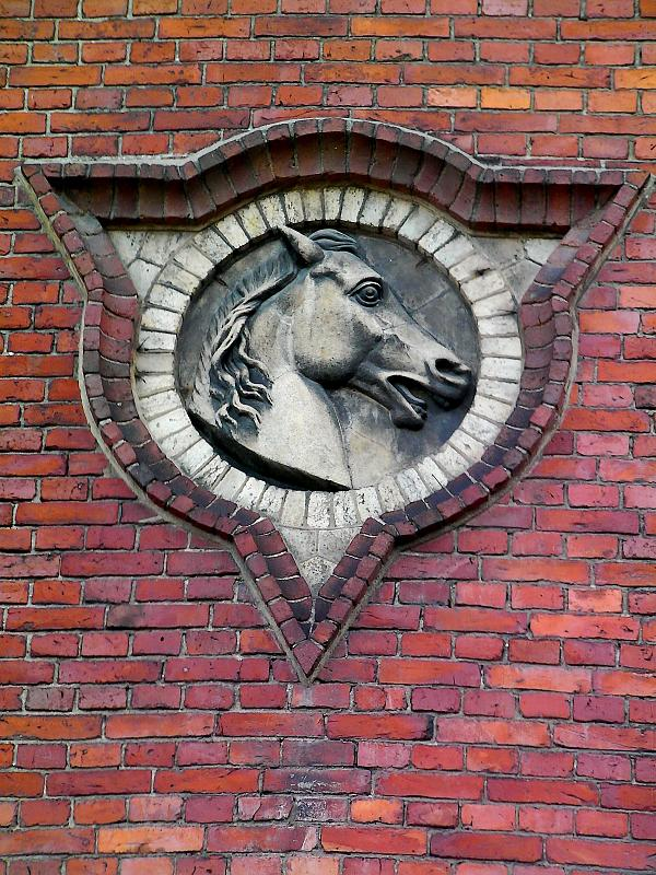 Ornament of Guard's manège in Helsinki, Finland